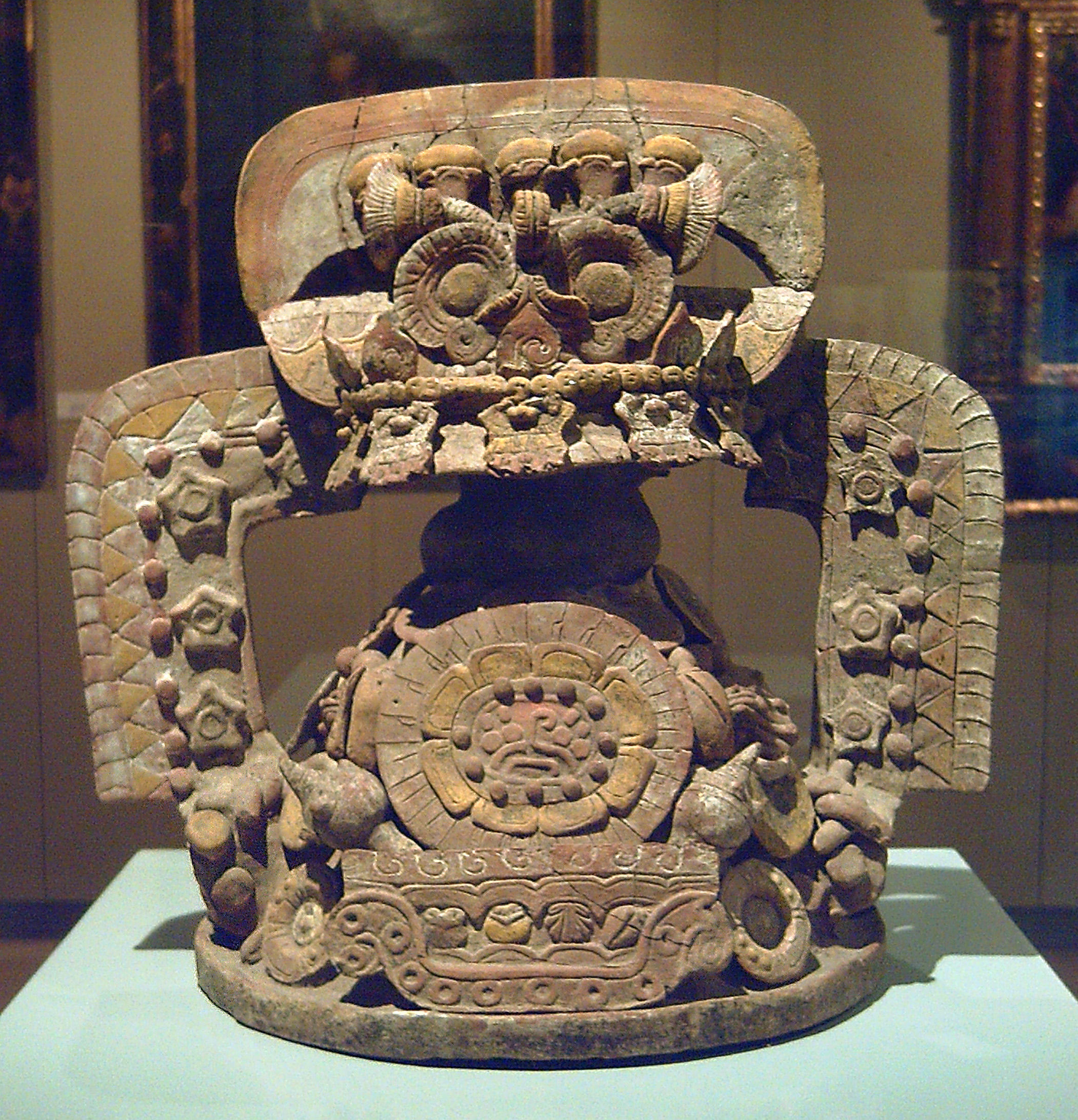 An incense burner lid from the Teotihuacan Culture, Xolalpán phase, Middle Classical Period.